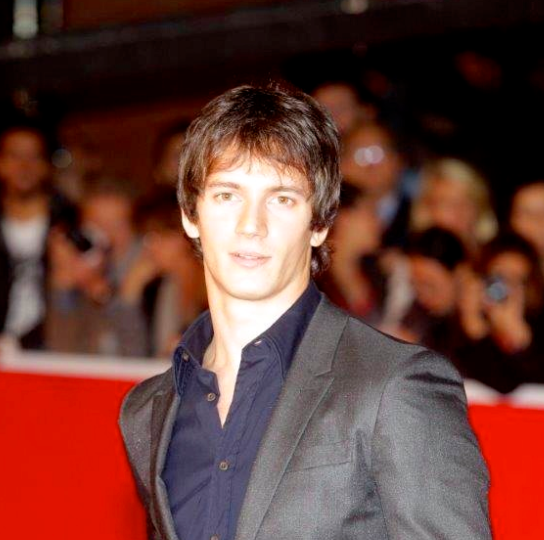 Federico Costantini at Rome Film Festival 2013